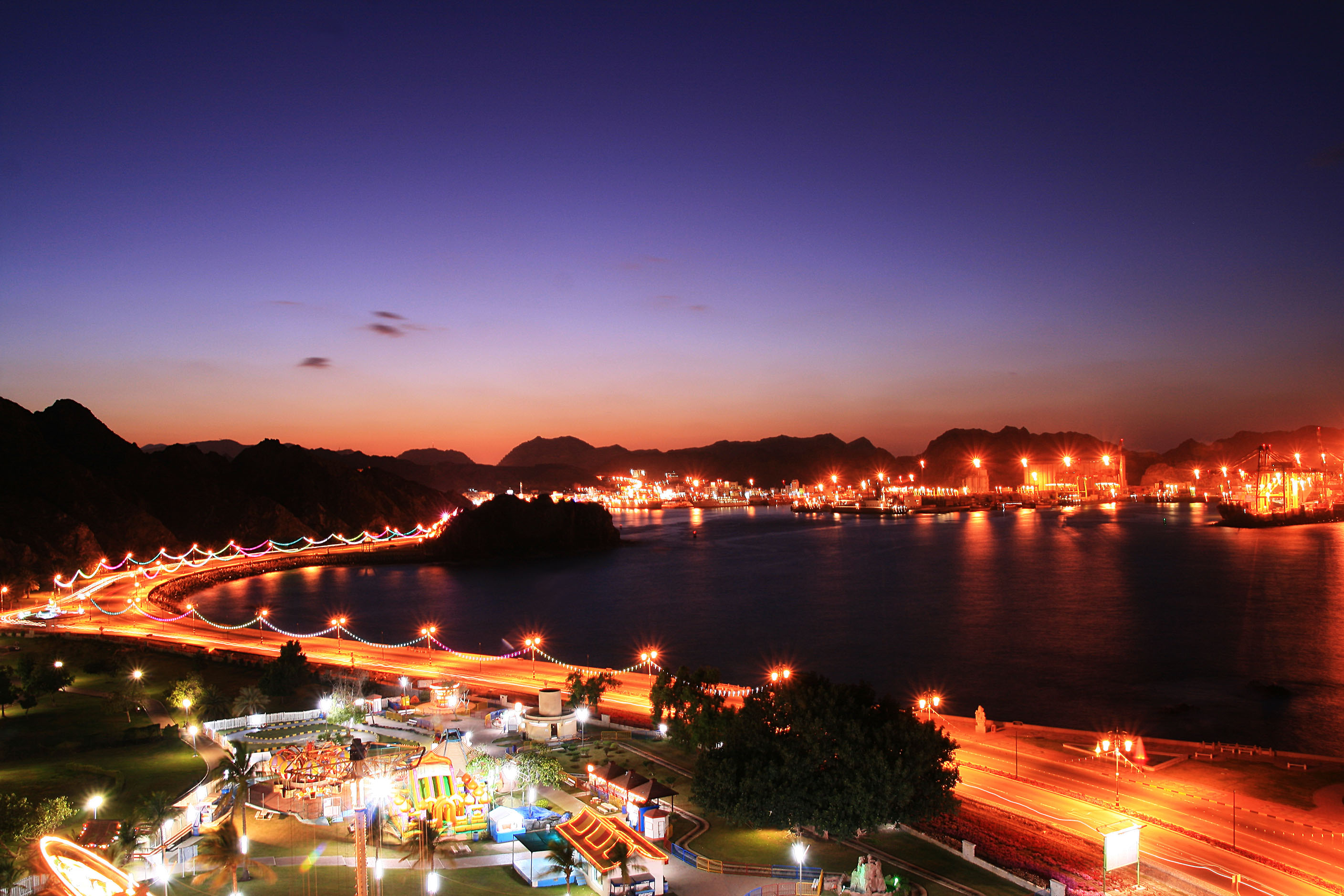 Muttrah Corniche in Muscat, Oman at night